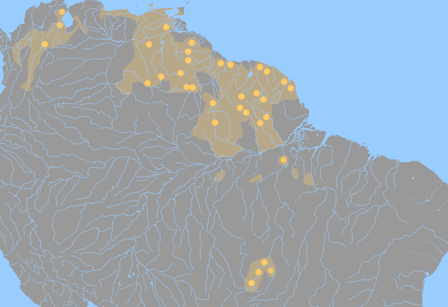 Cariban languages in Venezuela, Guayanas, Surinam and Brazil. Location of living languages and probable areas of expansion in 16th century. Based on data in Desmond C. Derbyshire "Carib Languages" in The Amazonian Languages, Dixon & Alexandra Y. Aikhenvald (eds.), Cambridge: Cambridge University Press, 1999. p. 22.